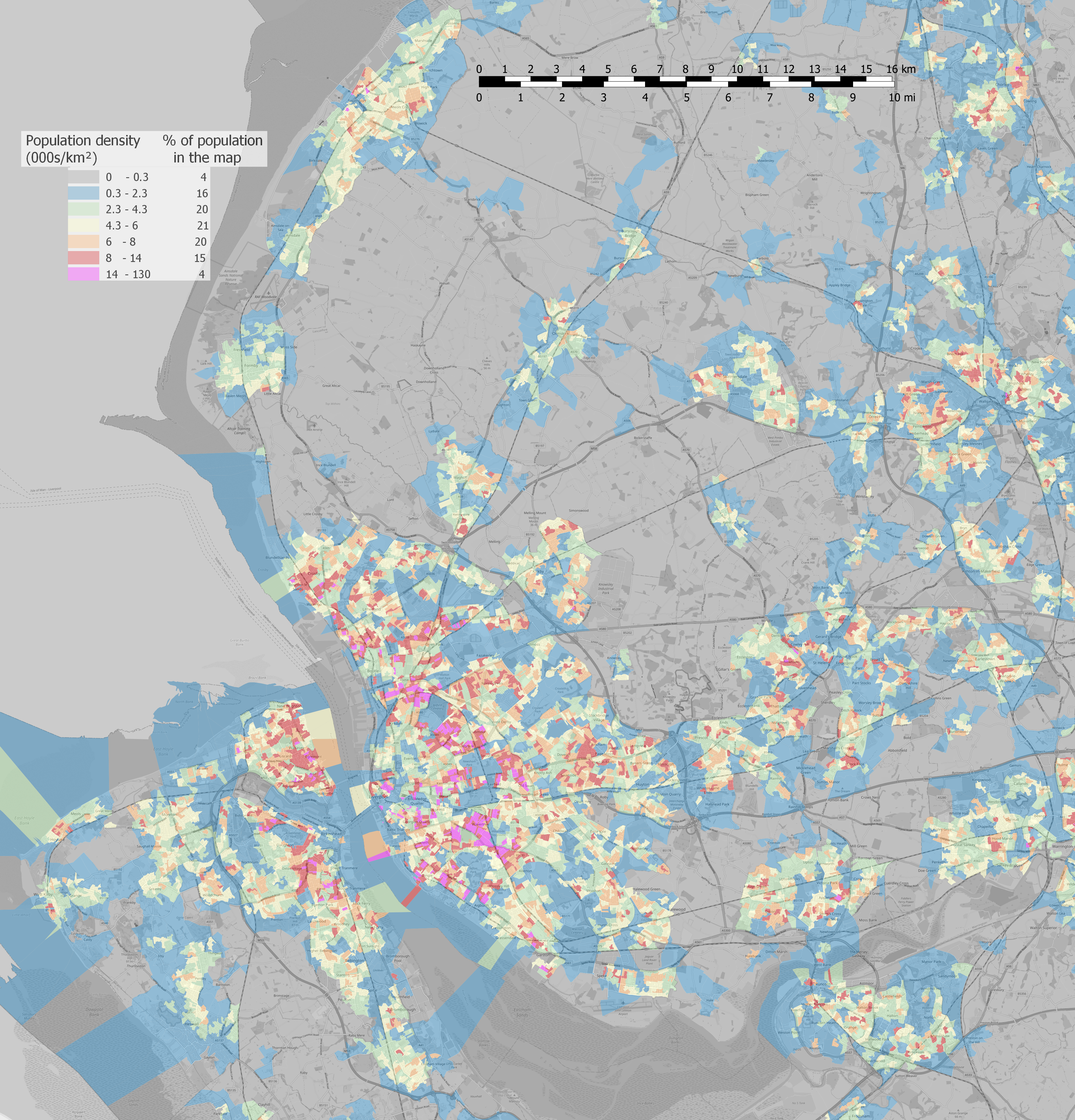 In 2011 the map area was inhabited by 2 mln people, 1.5 mln in current Liverpool City Region area. Population density computed from 2011 Output Area (OE) data and there is on 2020 map so new neighbourhoods are visible in the grey zone. Values sometimes are not representative because: sometimes a whole nonresidential area is contained in one from a few adjacent OEs. sometimes OEs encompass only building, sometimes only part of it, to keep up stiff household count limit, what gives very high density. OE boundaries are visible, especially in red and pink.